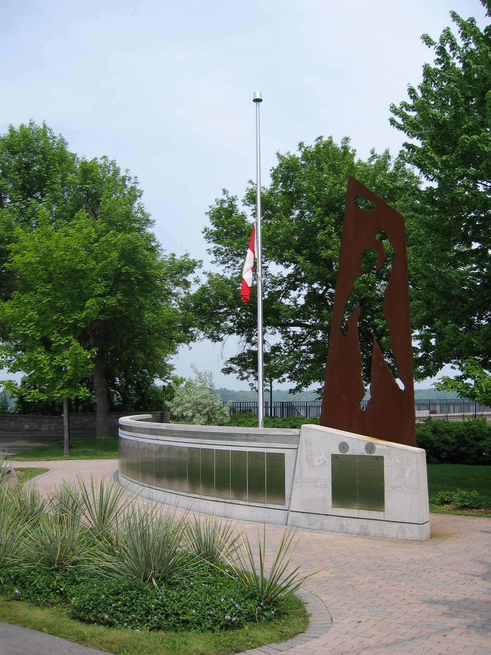 Photograph of the Mackenzie-Papineau Battalion monument in Ottawa, I took this photograph on June 6, 2005.